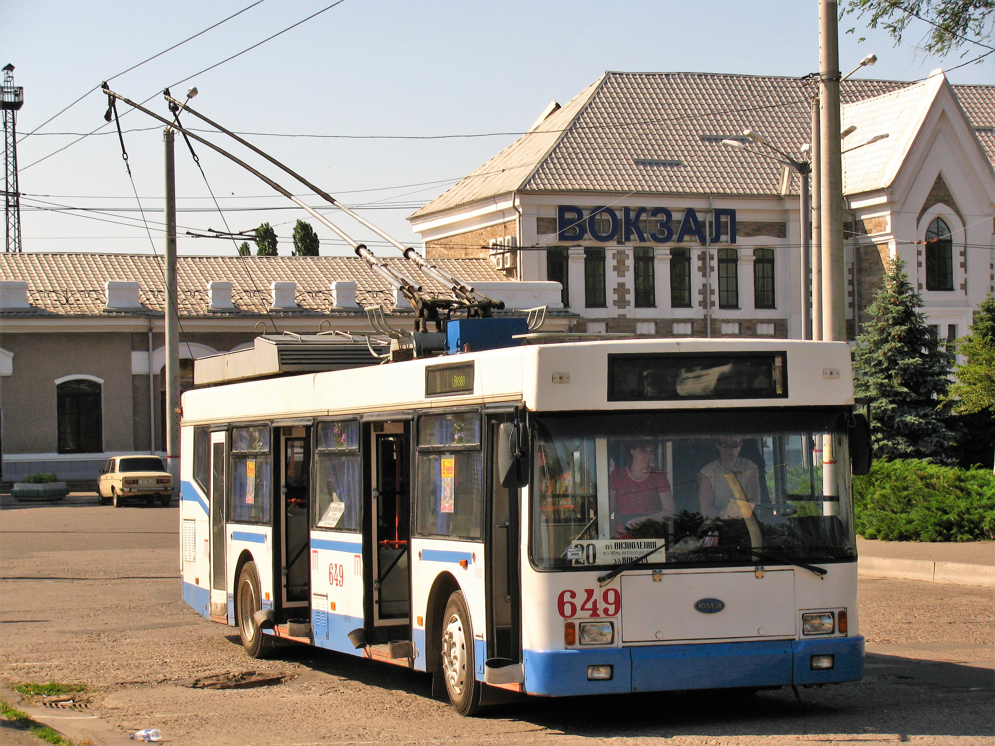 Trolleybus YuMZ E-186 in Kryvyi Rih